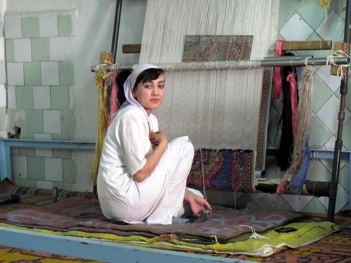 In a carpet, each knot is a pixel of color, and they do this remarkably quickly given the number of knots, progressing at 1cm per person per day (= 7 knots high, 400 strands across = 2800 knots) but split shifts on the rug with two people, and get paid 10 SOM a knot, so each gets 15 dollars a day and rug goes for $1.5k or more. Yodgorlik Silk Factory